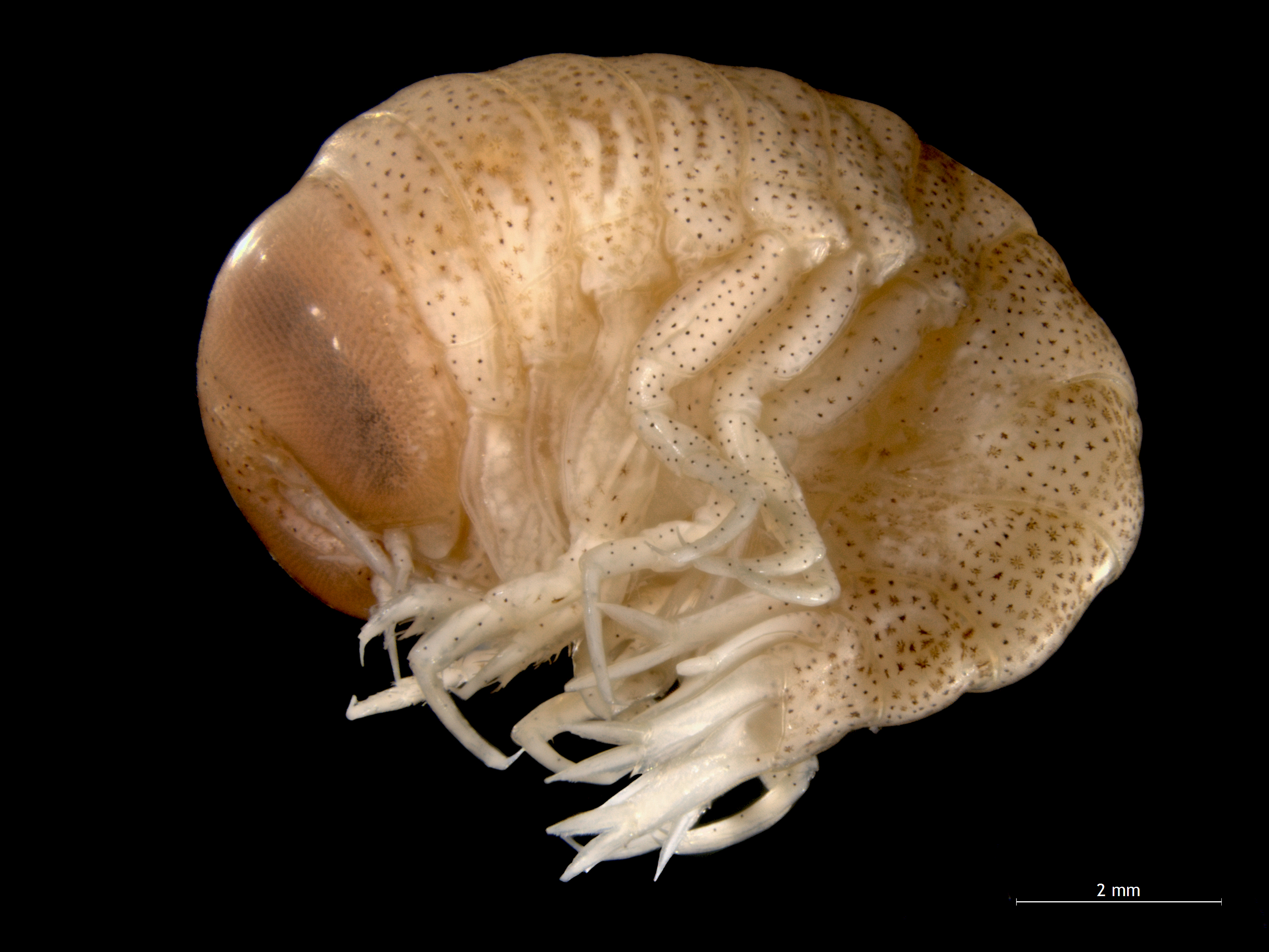 Symbiotic amphipod, taken with Leica DFC 490 camera mounted on a Leica M205C binocular microscope. It lives under the bell of rhizostome jellyfish. Collected 2012-03-13 at 51°25′42.78″N 3°7′23.81″E / 51.42855°N 3.1232806°E in the Belgian part of the North Sea. Picture was taken in the lab.Length = ~9 mmFocus stacking of 35 pictures.